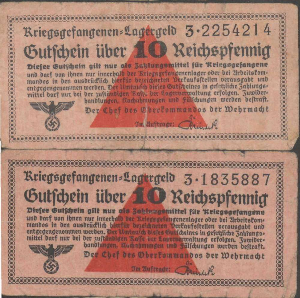 The 10 Pfennig coupon for Prisoners of War during WW II